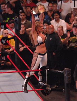 Trish's last match